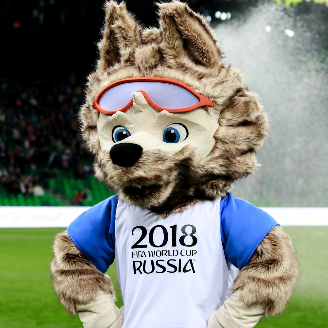 Zabivaka